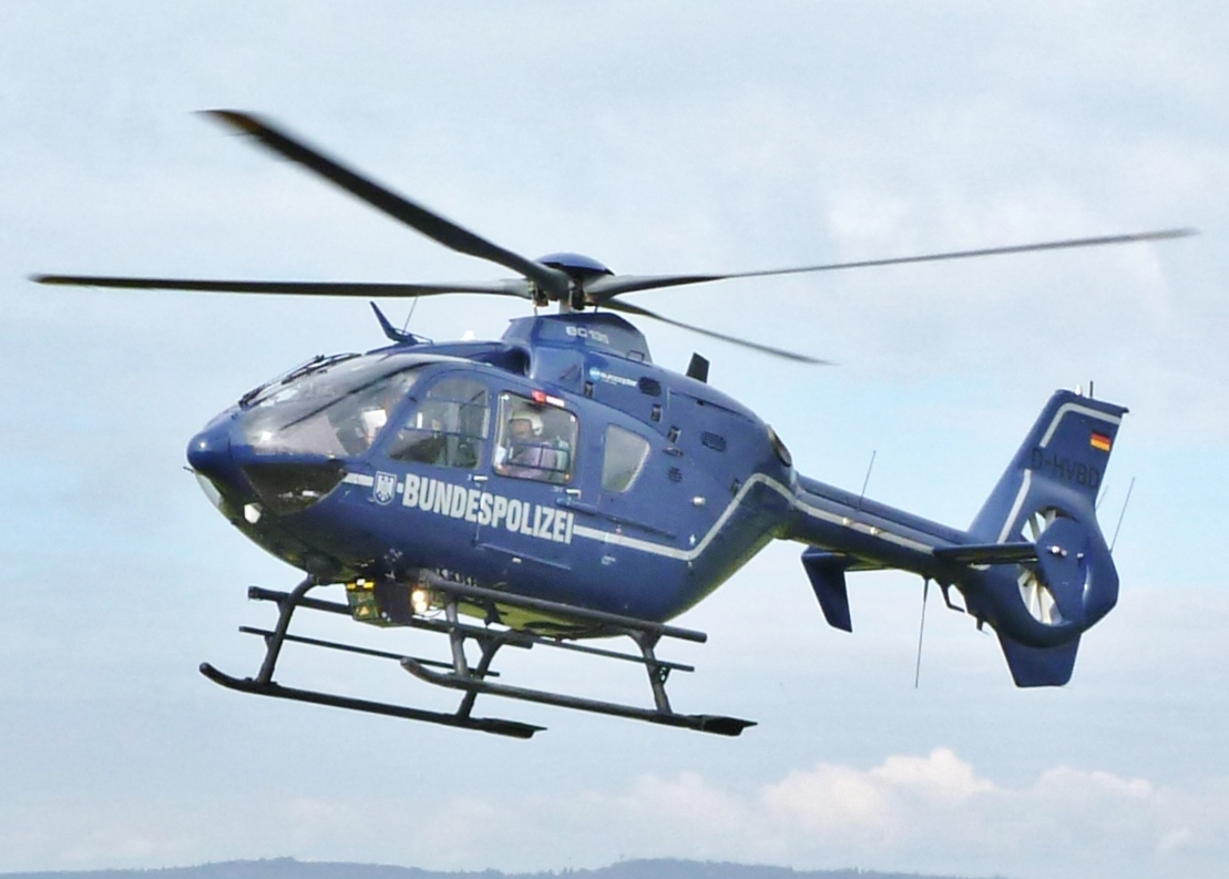 Landeanflug EC135